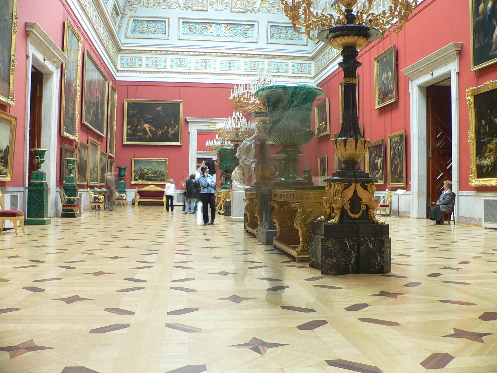 Ermitage Interior.